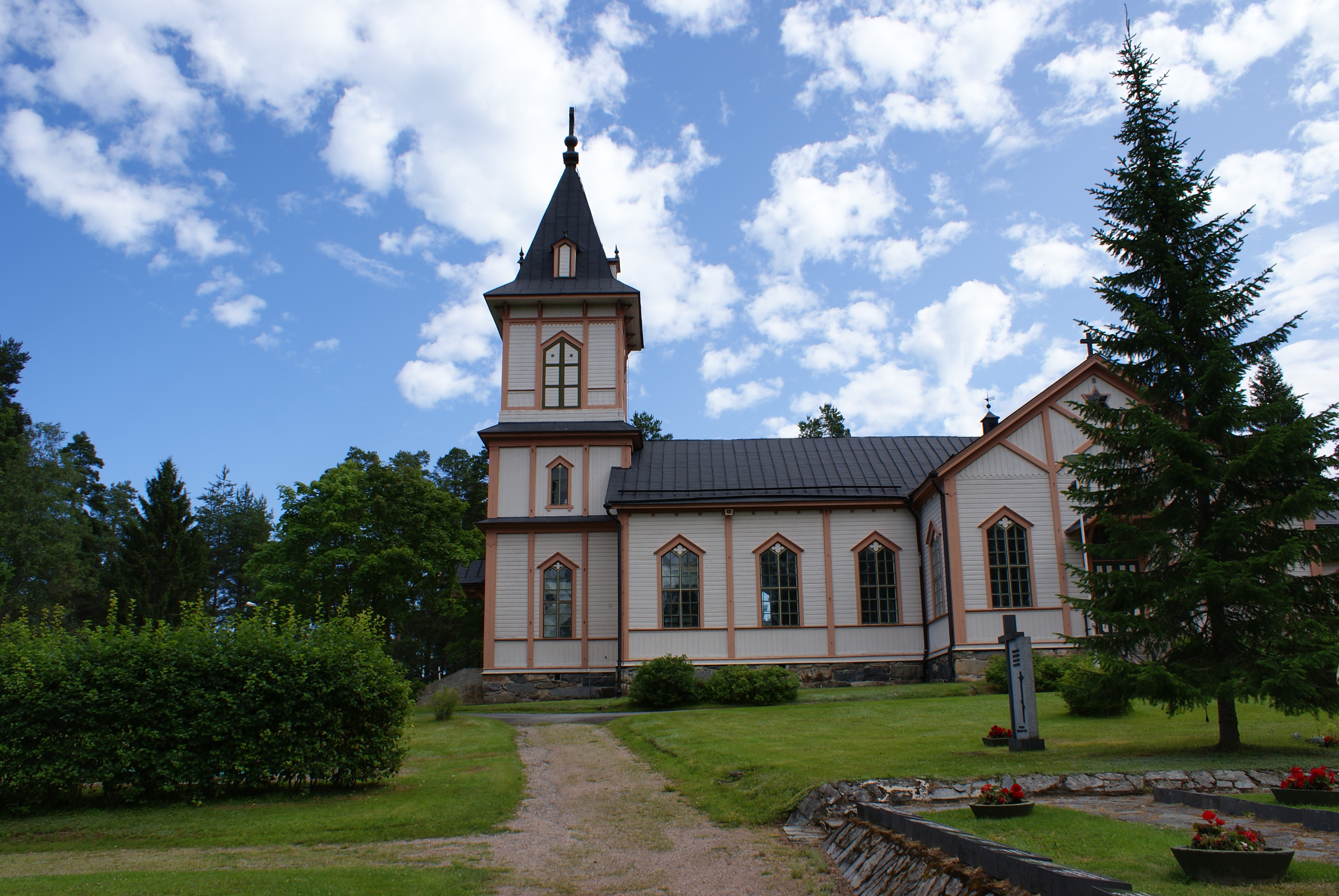 Keitele Church in Keitele, Finland.